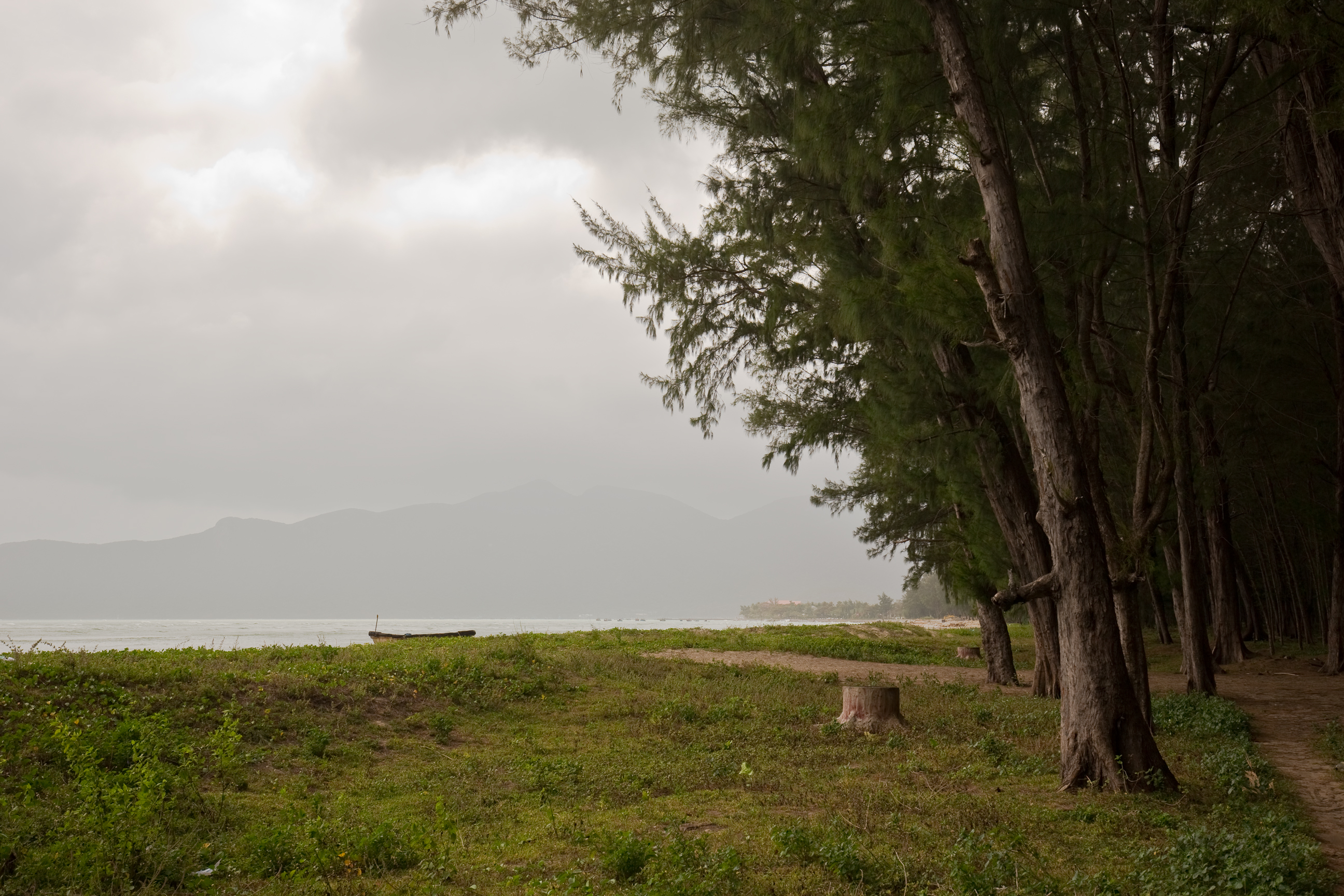 Côn Đảo beach at Côn Sơn Island, the largest island of Côn Đảo archipelago, Vietnam.